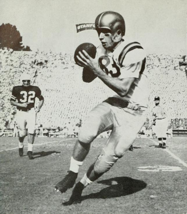 Photograph of UCLA football left end Johnny Hermann catching a pass against Oregon State